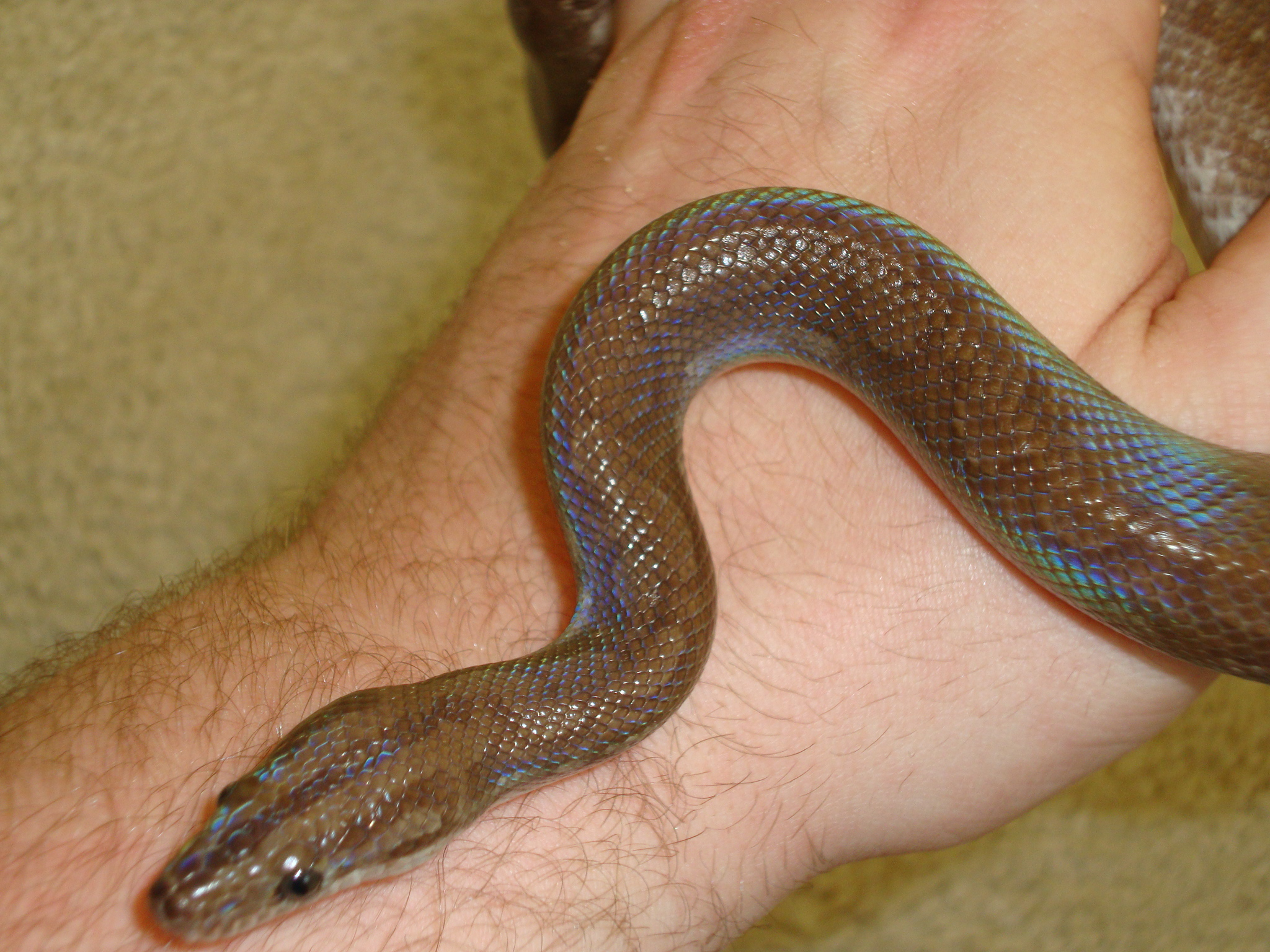 Epicrates cenchria maurus (Colombian Rainbow Boa)-Juvinile day time picture